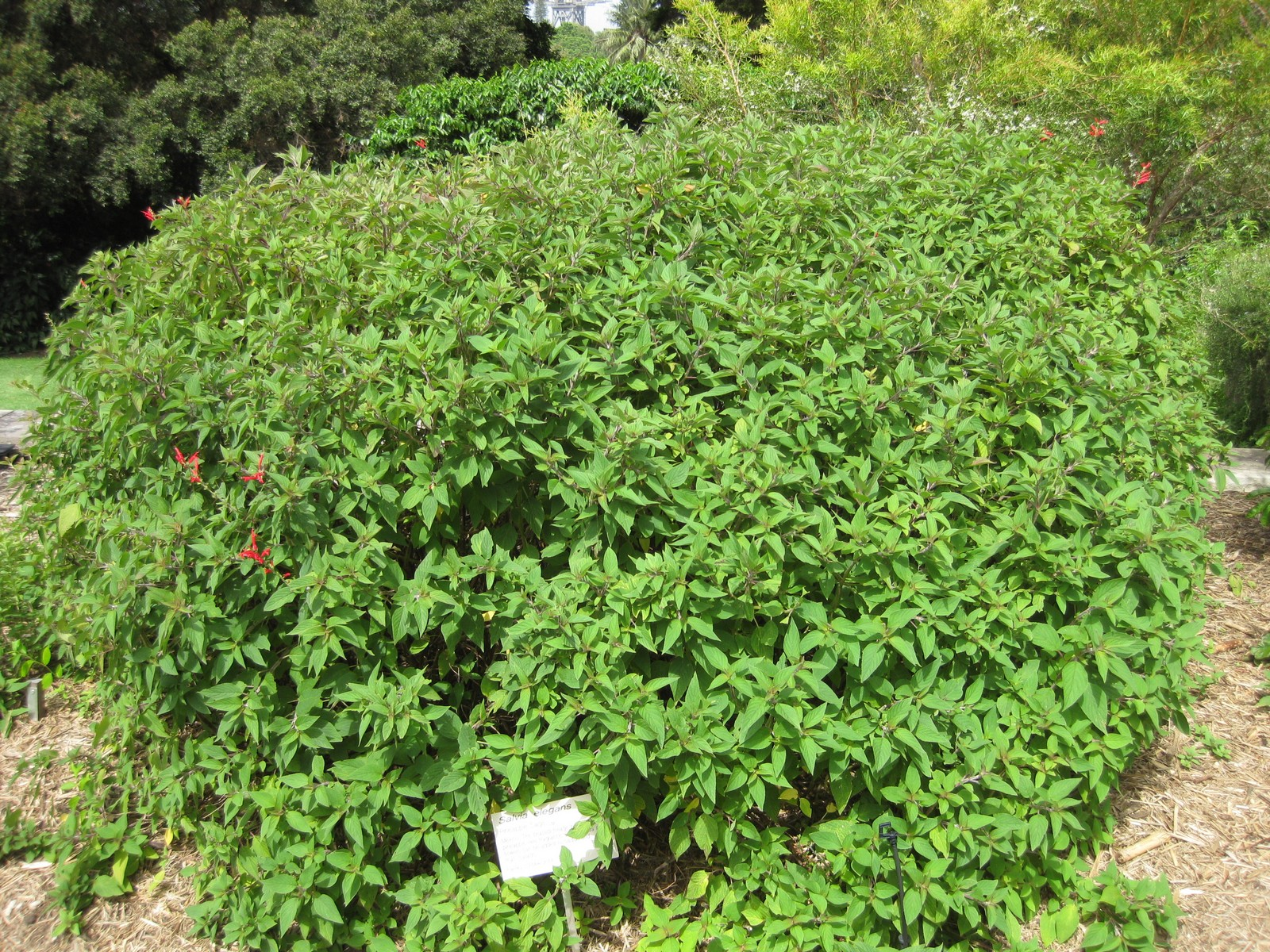 Photographed at the Royal Botanic Gardens Sydney (Australia) in January